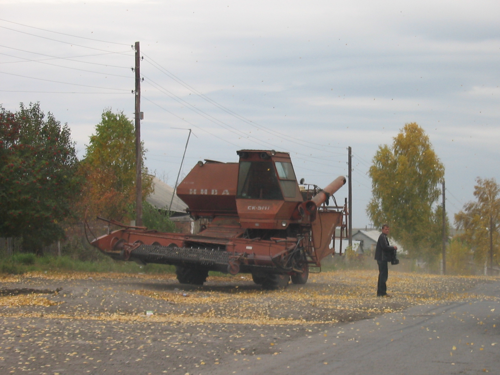 Combine harvester CK-5 Niva (Russian)